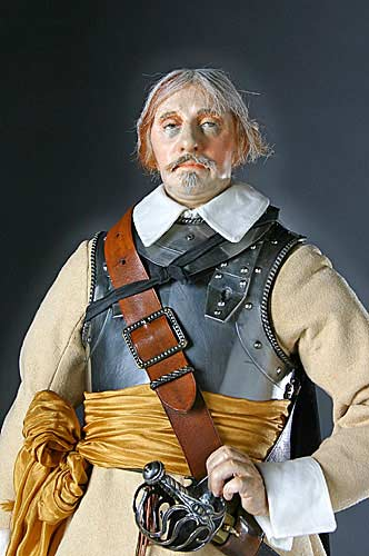 Historical figure of Oliver Cromwell